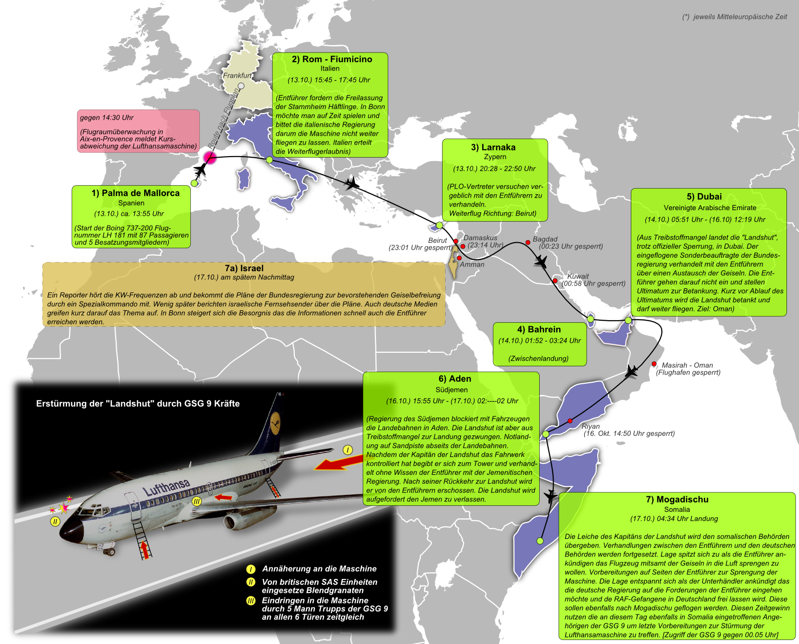 Route of the plan “Landshut” during the hijacking by the RAF.